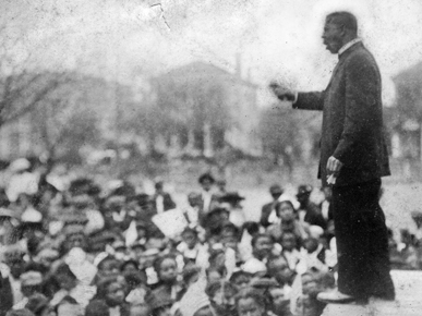 Booker T. Washington giving Atlanta Compromise speech at Cotton States and International Exposition 1895